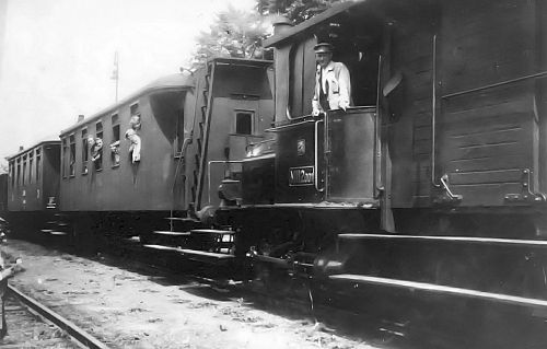 Locomotive M112.001 on station Polná, Czechoslovakia 1938